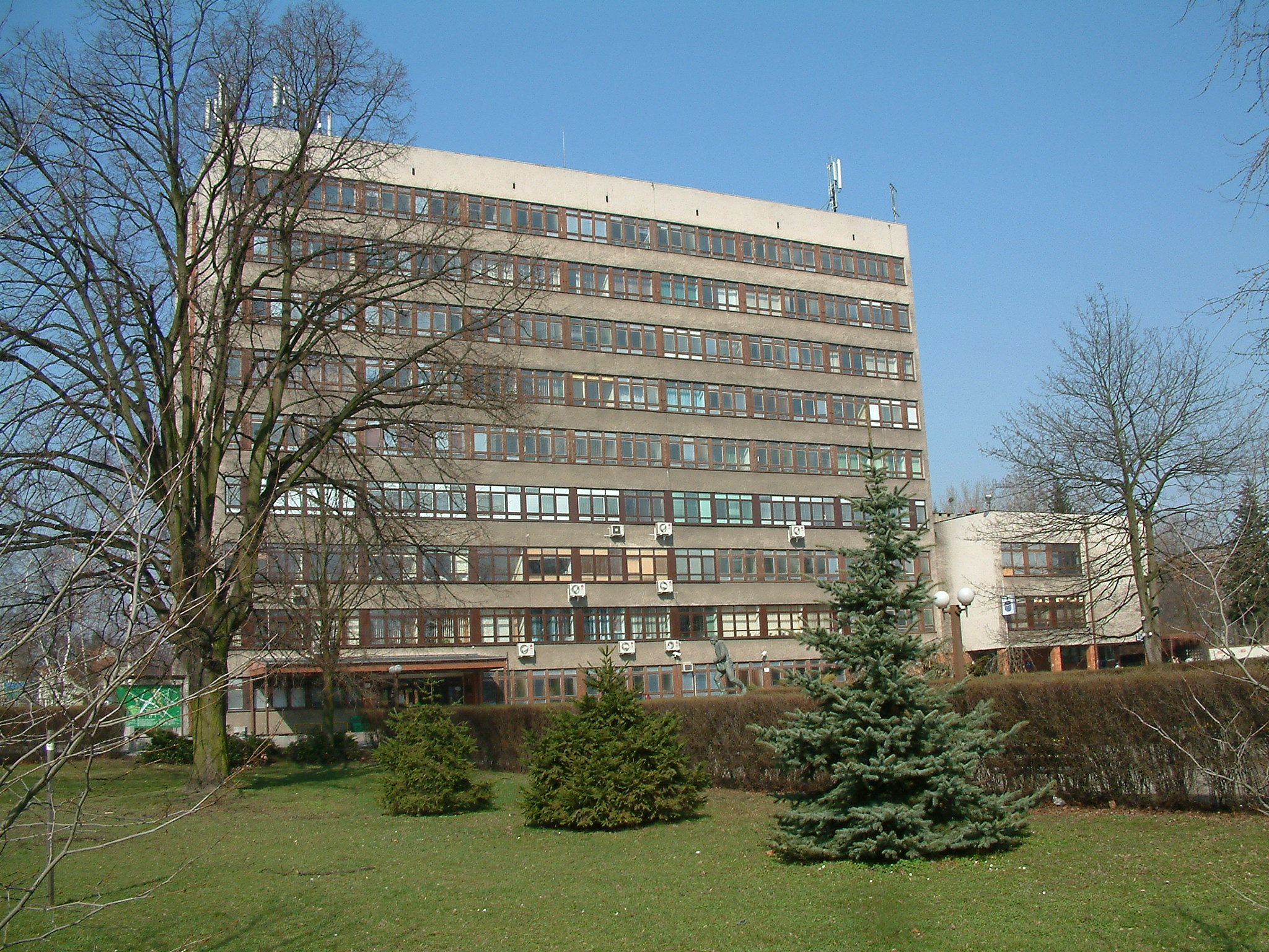 Collegium Maximum - Agricultural University of Poznań